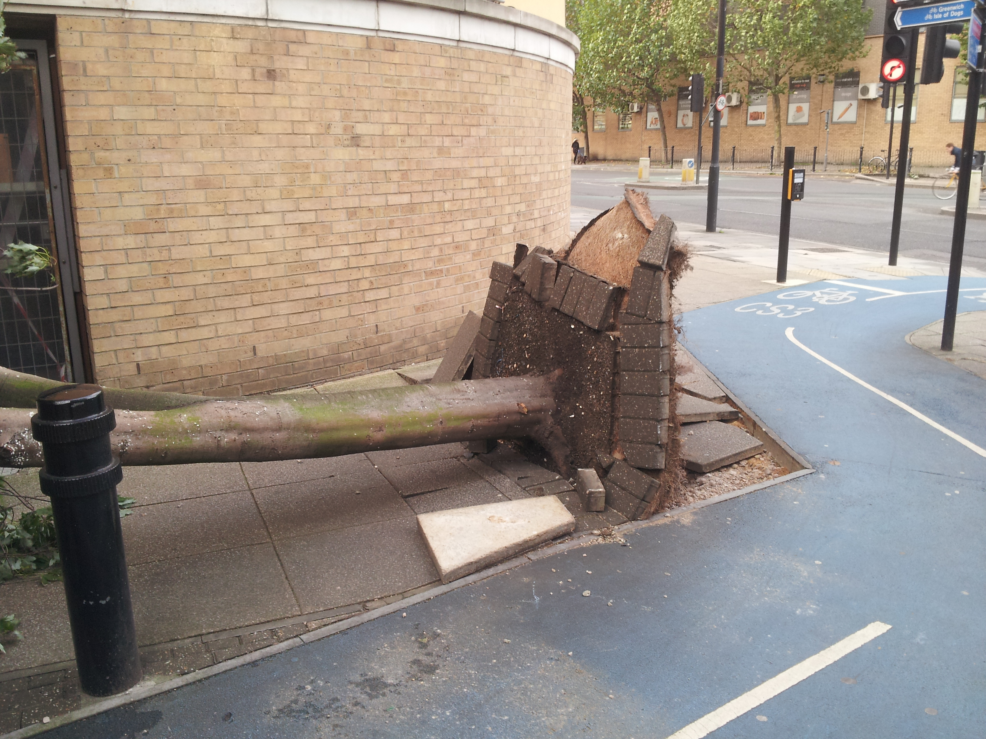 A tree which has been uprooted and has fallen over Cycle Superhighway 3 in London. The picture was taken during the morning of 28 October, next to Westferry Station.